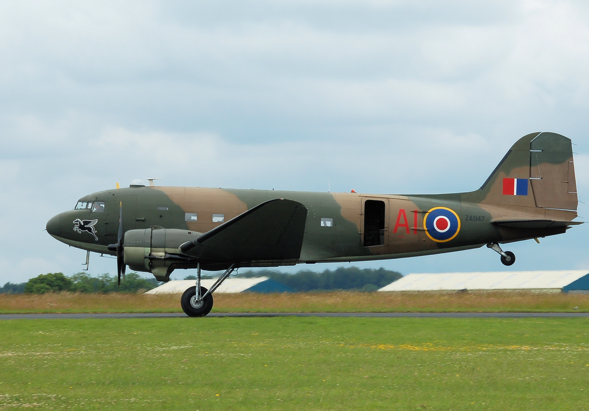 Battle of Britain Memorial Flight Dakota DC-3 (code ZA947) taking off at Kemble Air show, Kemble Airport, Gloucestershire, England, in June 2009. Quote from the BBMF website: “Dakota ZA947 wears the livery of 267 “Pegasus” Squadron, which flew in the transport, trooping and re-supply roles in the Middle East and the Mediterranean Theatres during 1943/44.The squadron employed various colour schemes on its Dakotas but always displayed its Pegasus emblem prominently on the aircraft’s nose. The Squadron’s role included the re-supply of partisans and resistance fighters, behind enemy lines, either by para-drops or by landing at clandestine airstrips.” Photographed by Adrian Pingstone and placed in the public domain.